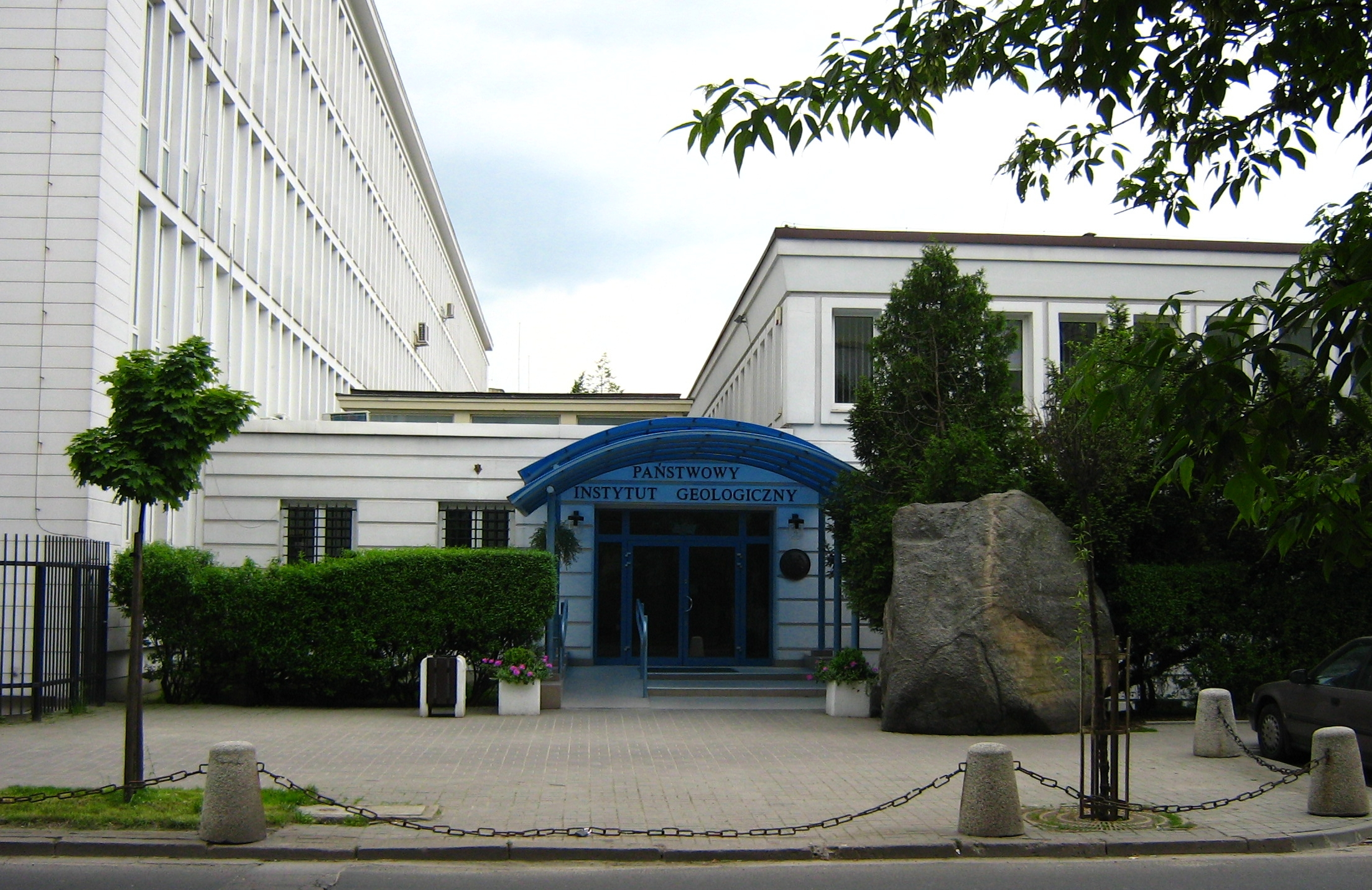 Polish Geological Institute. Warsaw.